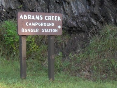 Sign along US-129 pointing the way to the Abrams Creek Campground in the Great Smoky Mountains National Park in the southeastern United States. Abrams Creek, which flows from Cades Cove to the Little Tennessee River, was named for the Cherokee Chief Old Abraham of Chilhowee. The ancient Cherokee village of Chilhowee was located at the creek's confluence with the Little Tennessee River.